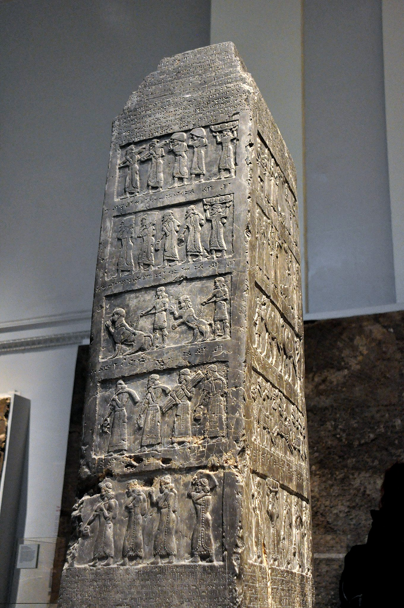 The Black Obelisk of Shalmaneser III, 9th century BC, from Nimrud, in modern-day Nineveh Governorate, Iraq. The British Museum, London. Side D appears on the left while Side A is on the right side of the viewer.